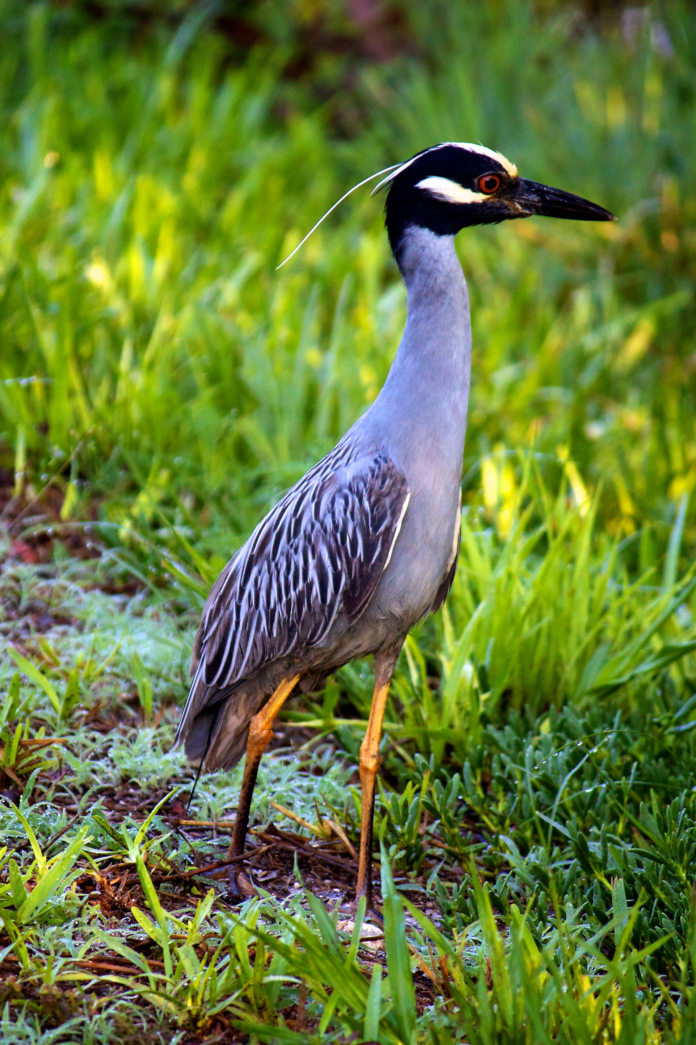 Yellow-crowned Night Heron (Nyctanassa violacea) at J.N. “Ding” Darling NWR Credit: USFWS Photographer: Keenan Adams